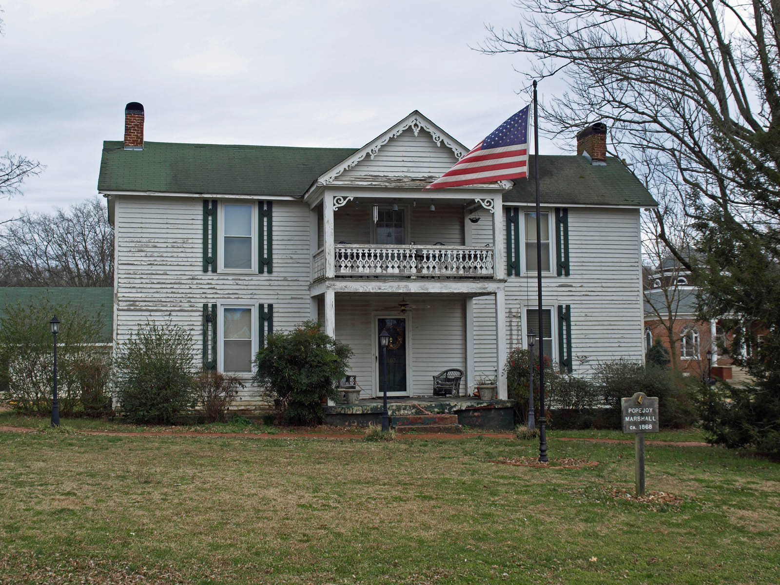 The Popejoy-Marshall House in New Market, Alabama, part of the New Market Historic District